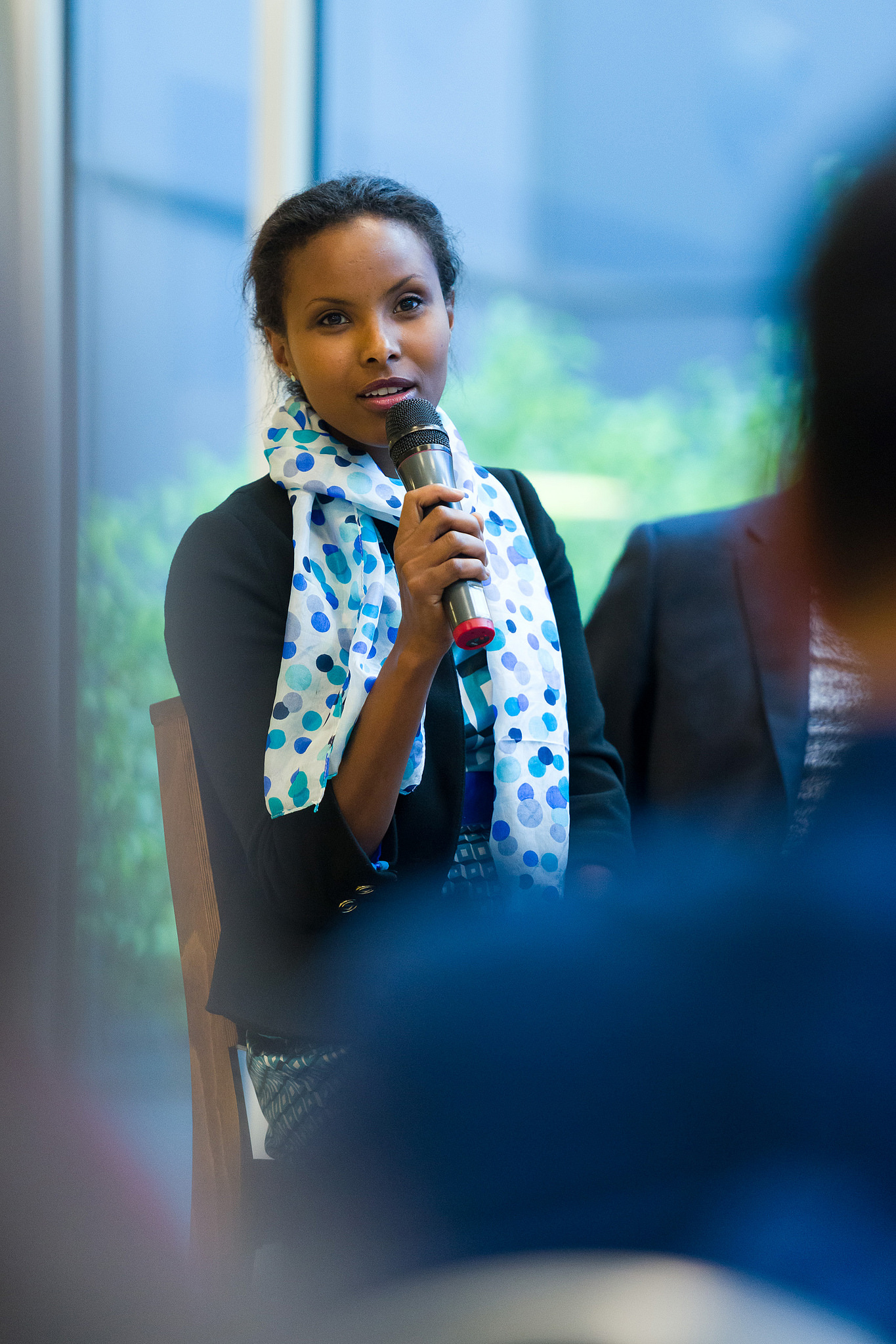 Portrait